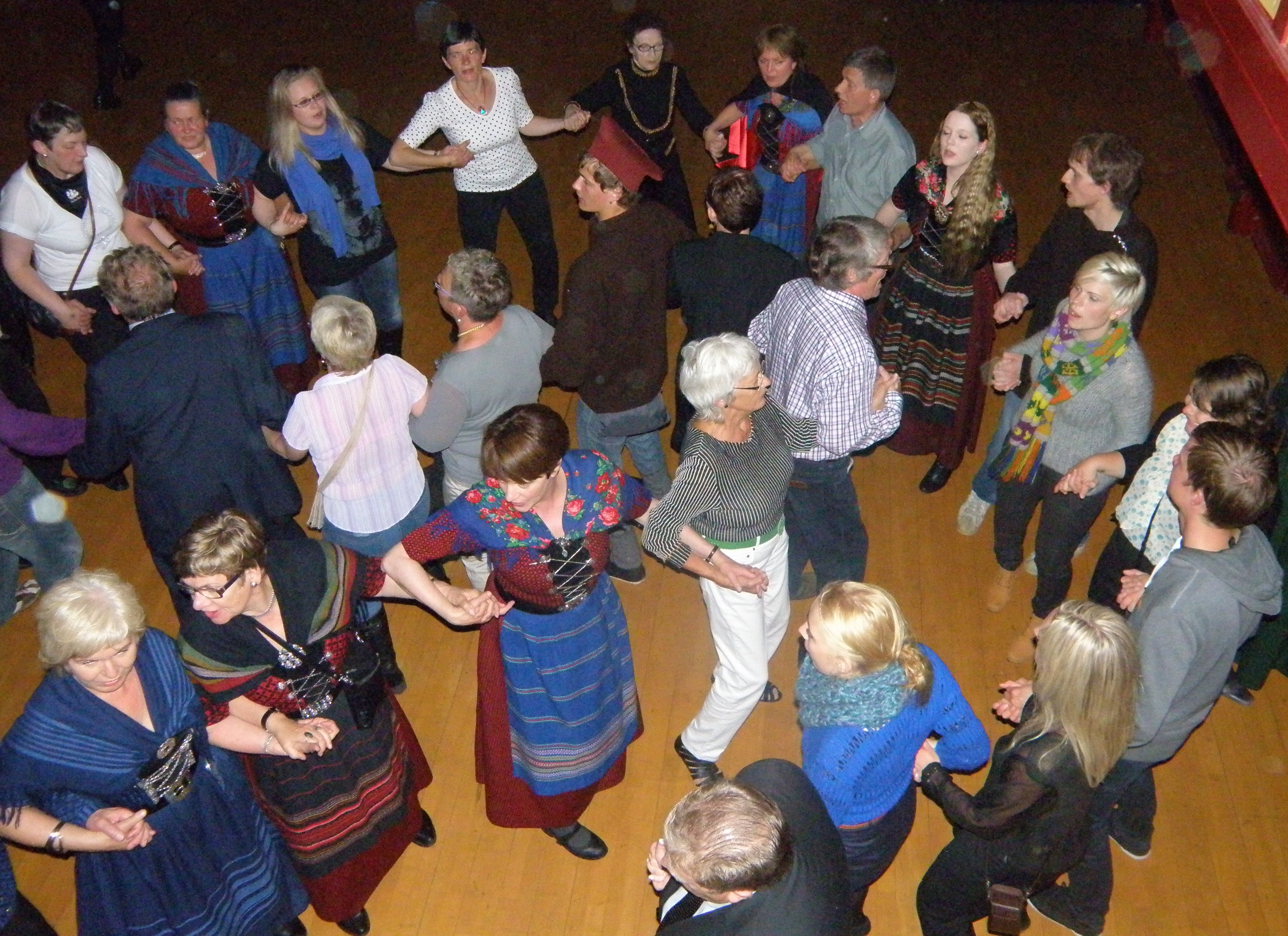 Faroese (and perhaps some foreign too) are dancing Faroese chain dance in Tórshavn in a place called Sjónleikarhúsið (a former theatre). The Faroese dance is a very old tradition, no instruments are used, the dancers are only using their voices to sing the Faroese and Danish ballads (kvæði), which sometimes can be very long, more than 100 or 200 verses. This photo was taken on Ólavsøka (Sct. Olav's Wake) which is the national holiday of the Faroe Islands, celebrated in the end of July, especially on 28 and 29 July. The Faroese chain dance (føroyskur dansur) is normally on the programme for Ólavsøka in the evening of 28 until 3 or 4 o'clock in the morning. There is also outdoor dancing after the midnight singing on Vaglið in the center of Tórshavn on 29 July, or that will be on 30 July because it is after midnight. Some of the women on this photo are wearing the national costume of the Faroes. Føroyskt: Fólk dansa føroyskan dans í Sjónleikarhúsinum í Havn á Ólavsøku 2011.